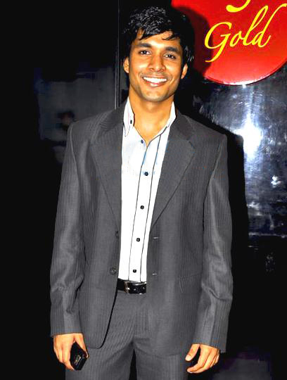 Maradona Rebello at the premiere of Pankh in Mumbai, on April 1, 2010.